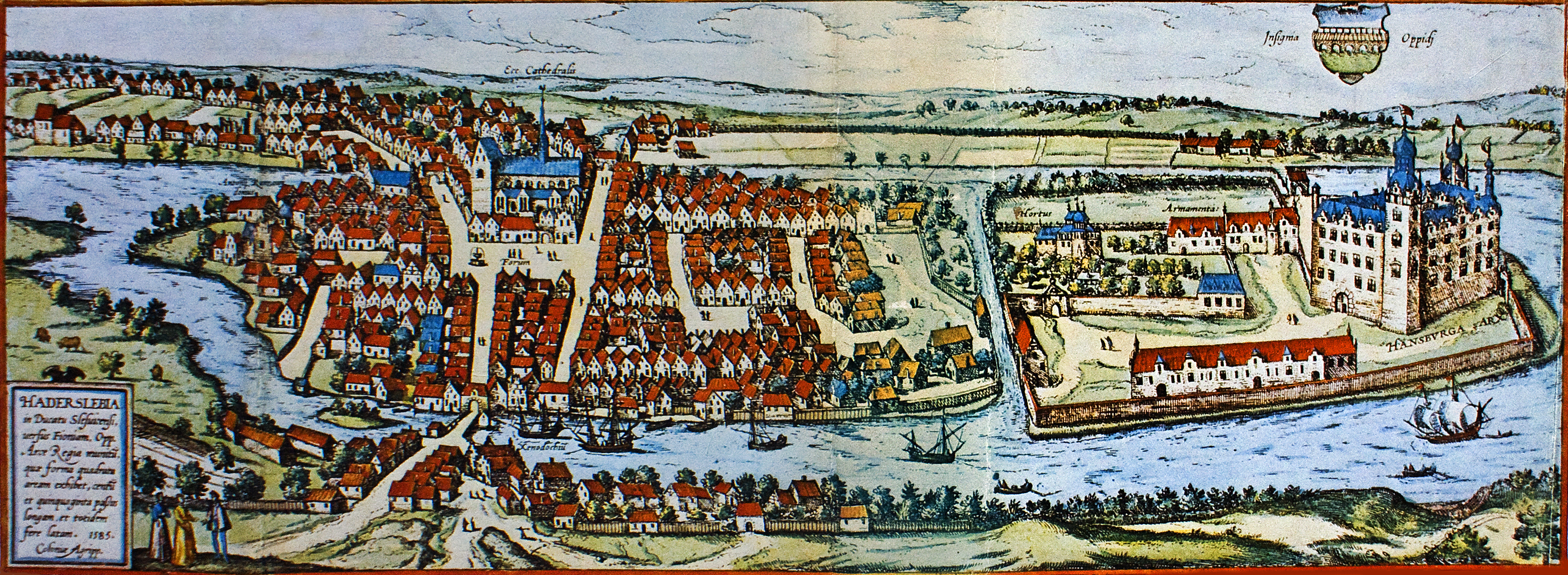 Prospect city Haderslev Denmark year 1585